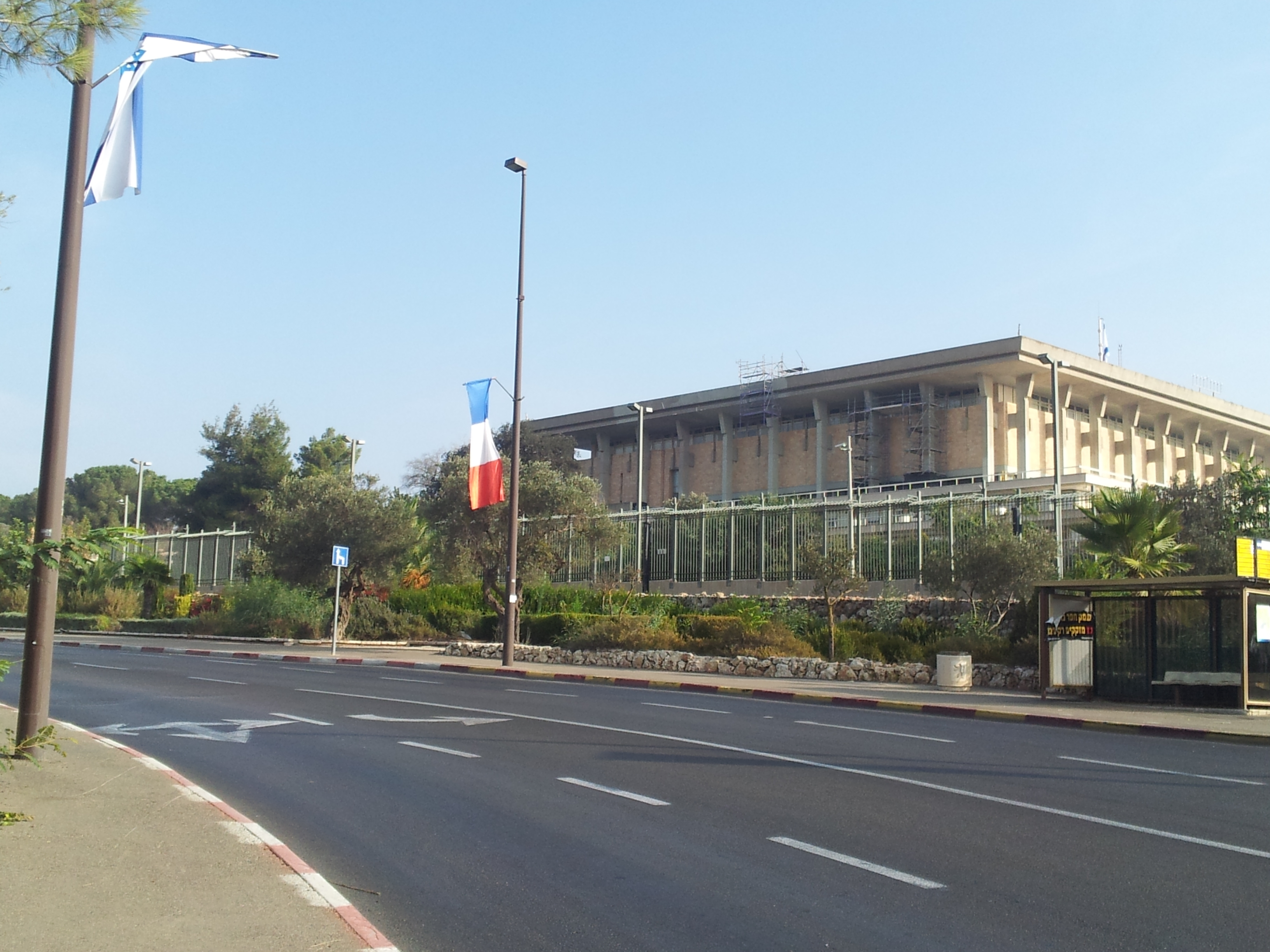 French nad Israeli flags near Israeli Knesset (parlament) durig France Presidant François Hollande visit to Jerusalem, Nov 2013